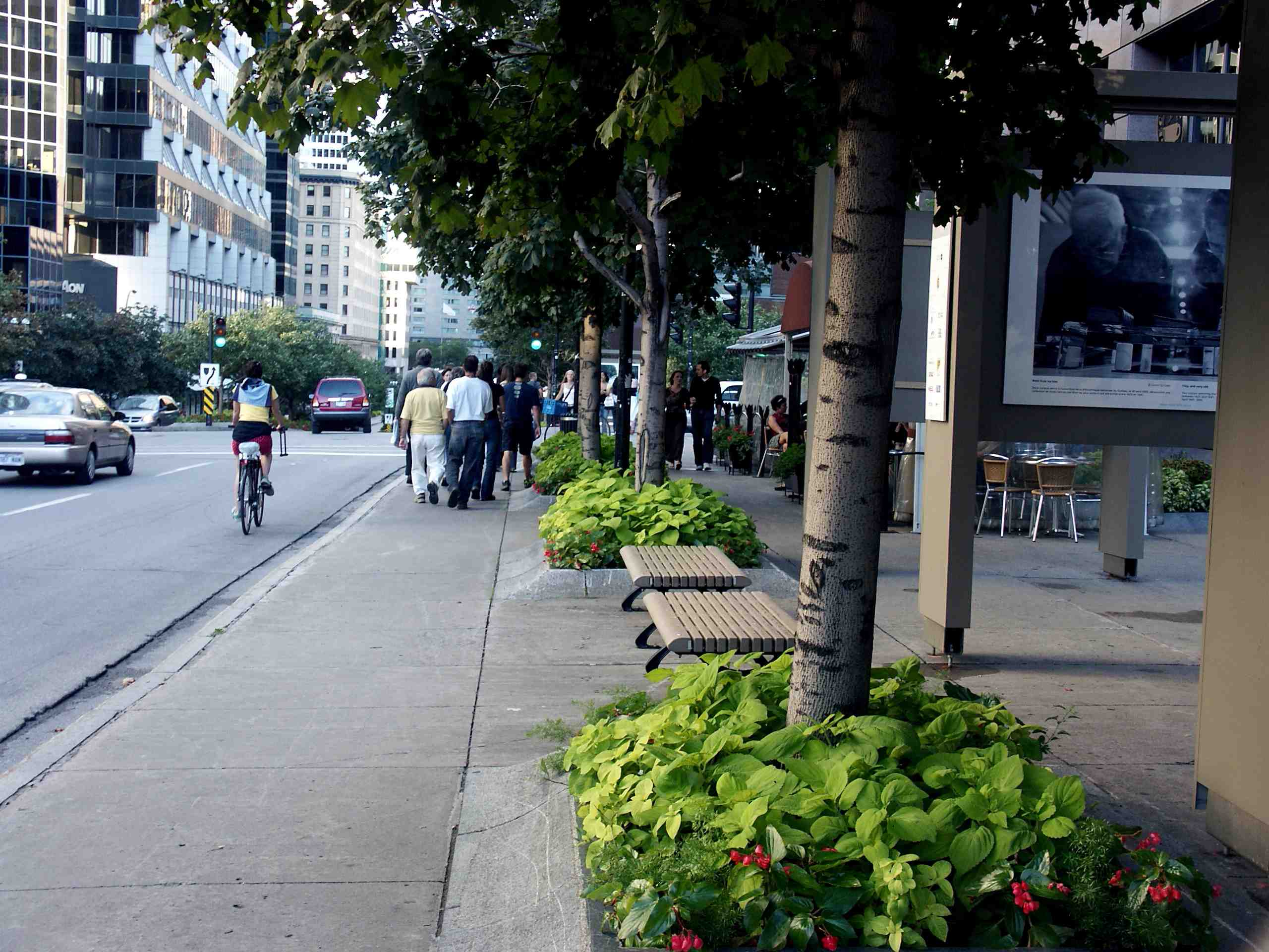 McGill College Avenue, Montreal. Photo by: User:Gene.arboit